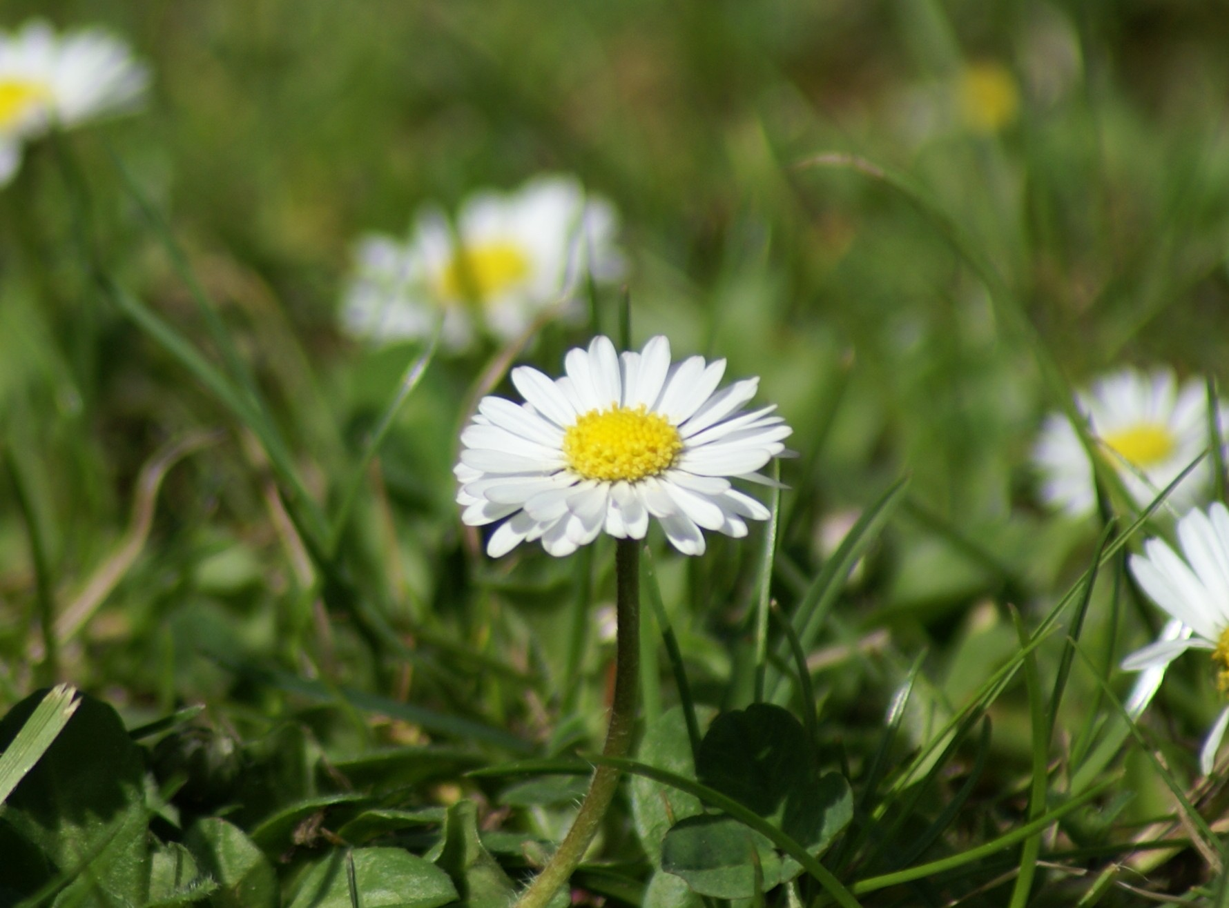 Daisies